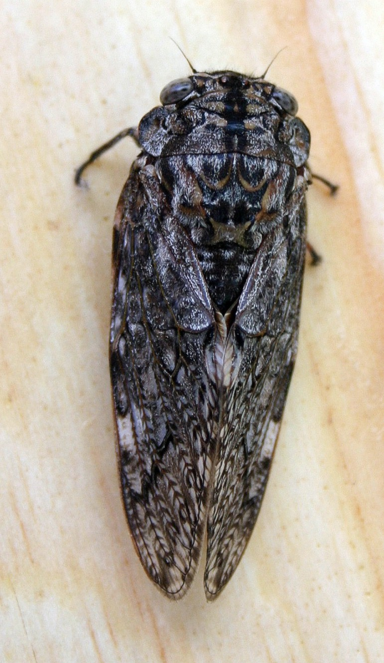 female of cicada, Platypleura mijburghi Villet, Magaliesberg